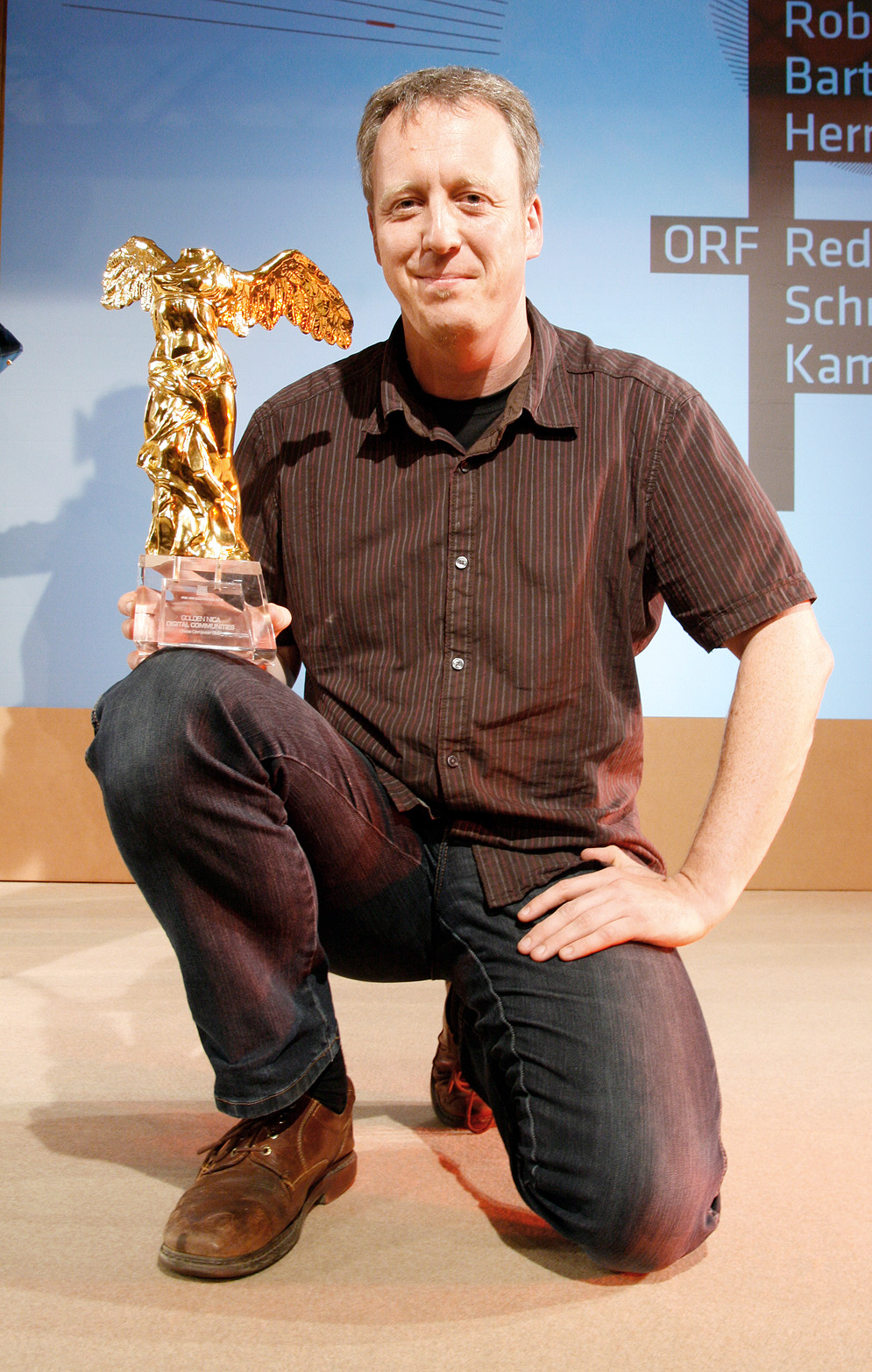 Tim Pritlove representing the Chaos Computer Club at the Prix Ars Electronica 2010 with the Golden Nica in the category Digital Communities ( Tabakfabrik in Linz during the Ars Electronica Festival 2010)